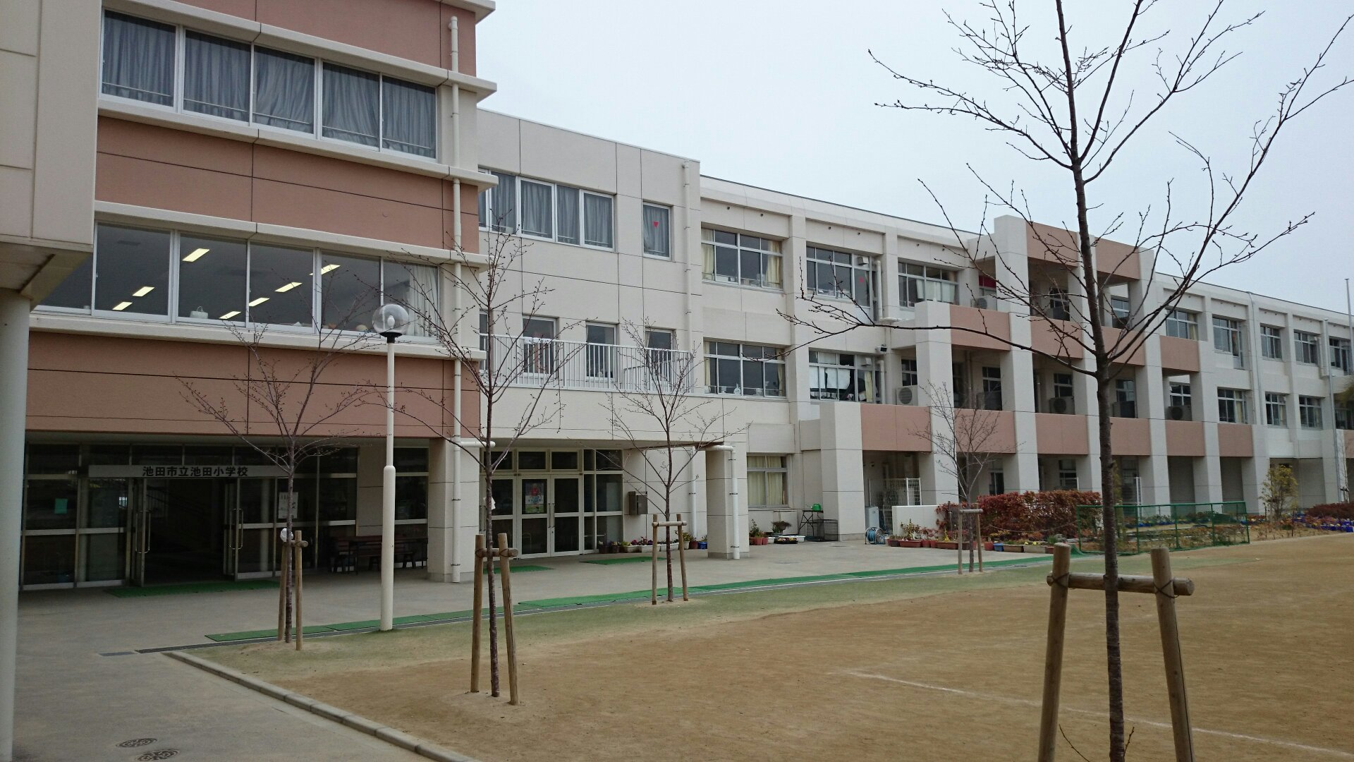 Ikeda elementary school